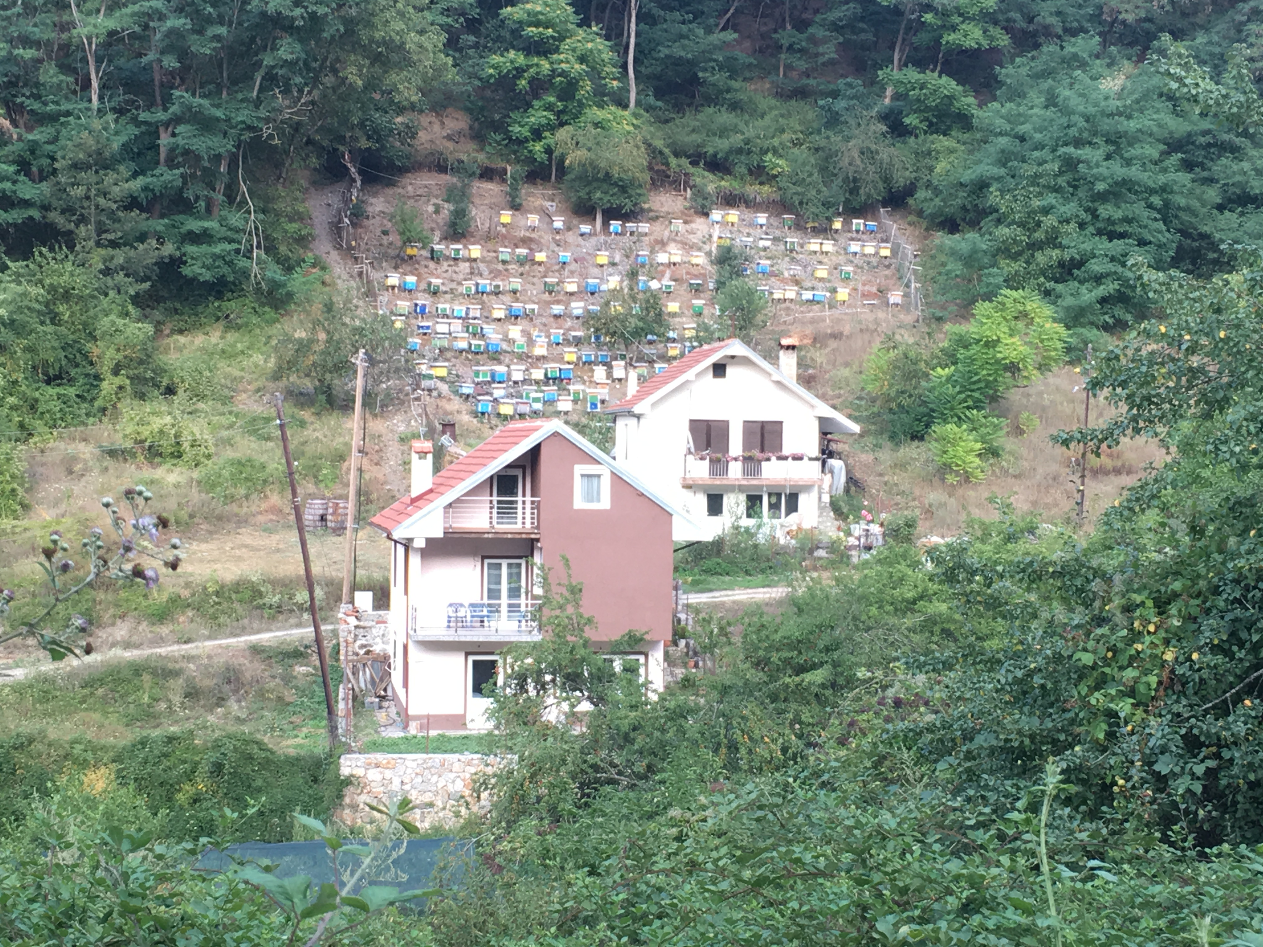 Houses in the village of Skrebatno